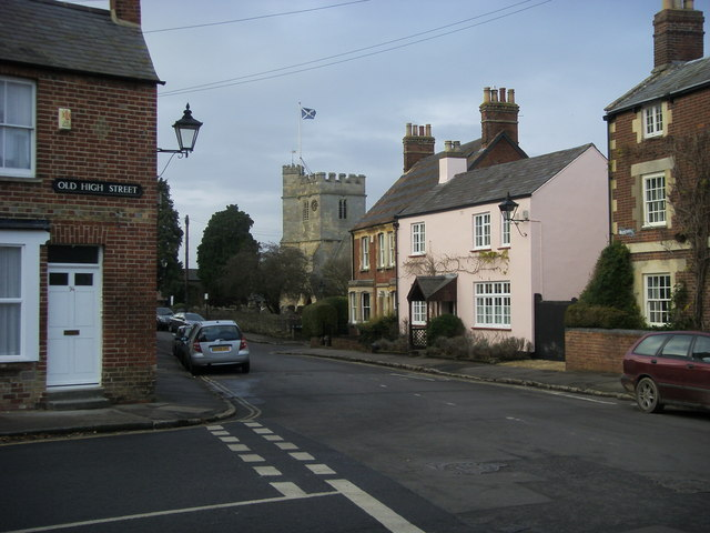 Headington, Oxford: view from the Old High Street to the tower of St Andrew's parish church